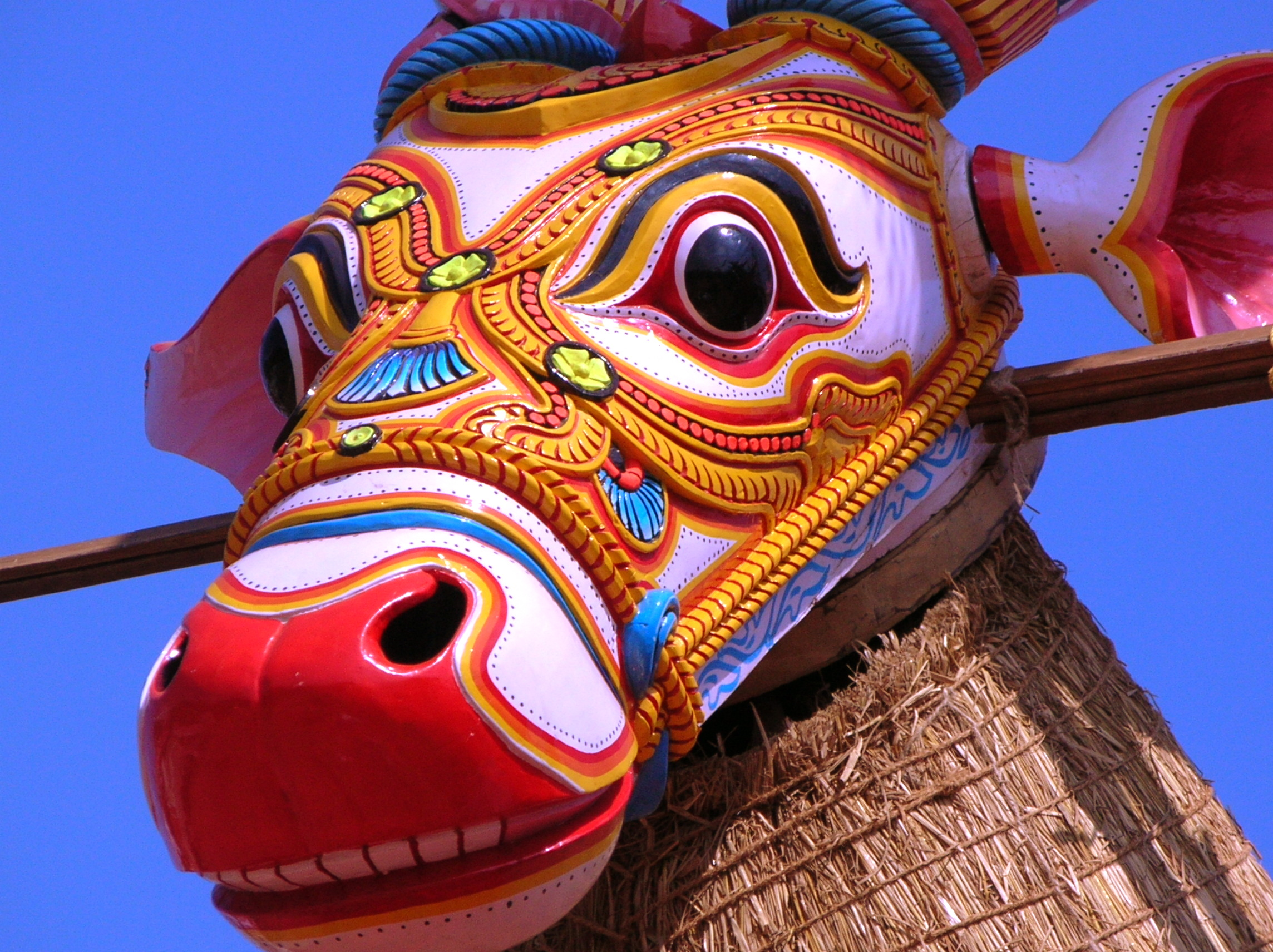 These are a series of shots from a celebration called "Kettu kazhcha" (kettu meaning tied up or "put together" and kazhcha meaning "show"). This, as every other celebration, is a community event. The nearby villages each make their own colorful effigy of 2 bullocks each, using wooden frames on wheeled chariots as base, and tying up truck loads of hay to shape the bodies. Then the heads are attached and decorations added. These massive heads are carved by hand out of wood and hand painted. There are 13 villages that partake in this celebration in front of a shiva temple (Parabrahma kshethram) at Padanilam (a place in Alleppey district near Nooranadu in Kerala South India) meaning there would be 13 humongous and colorful effigies lined up together in all their splendour every Shivarathri... must be quite something... It is supposed to represent a mock fight, so it is competitive too... Anuj Nair Thank you for the corrections.. :) I missed the real celebration. I landed up there as they were taking these down. :( still happy to have seen what I missed :) and yeah I do plan to make it there one day to see it live! PS: any suggestions/ corrections are welcome this is based on my basic knowledge no other source to be quoted.